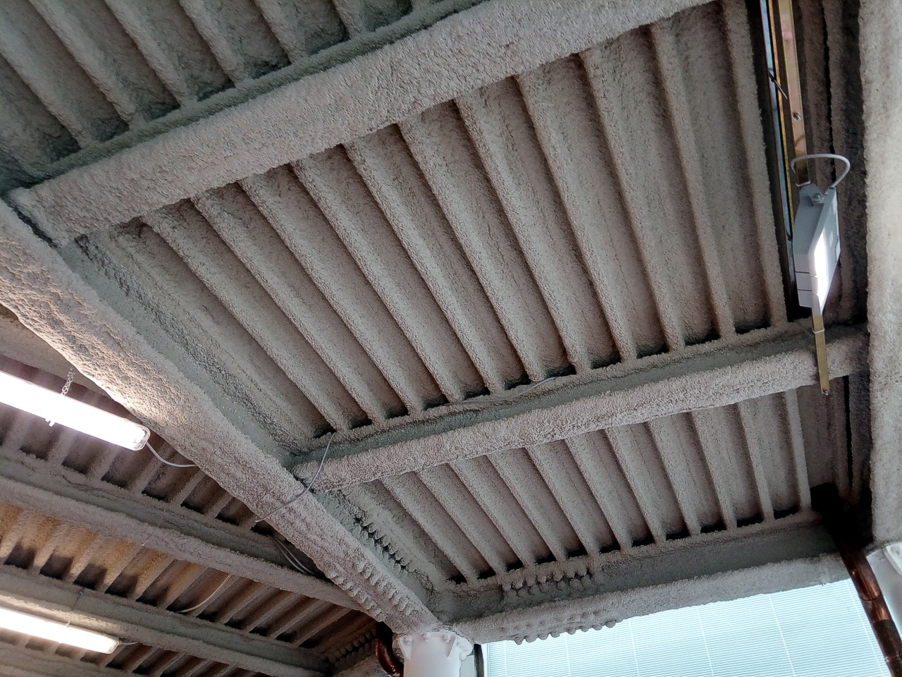 Structure with steel beams equipped with a gypsum and vermiculite insulation coating, fire protection.